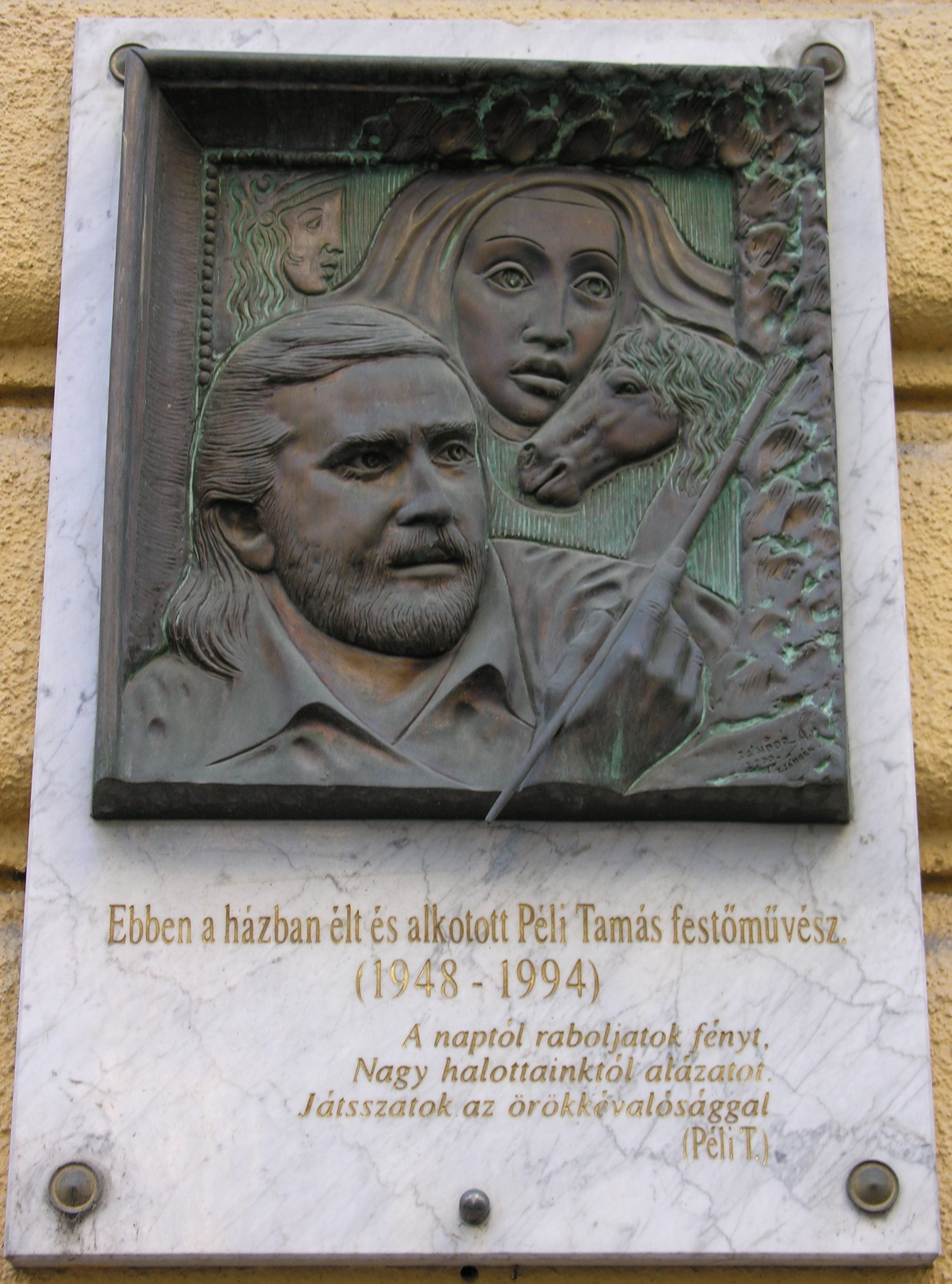 Commemorative plaque of Tamás Péli in Budapest District IX, Lónyai Street No 13/b